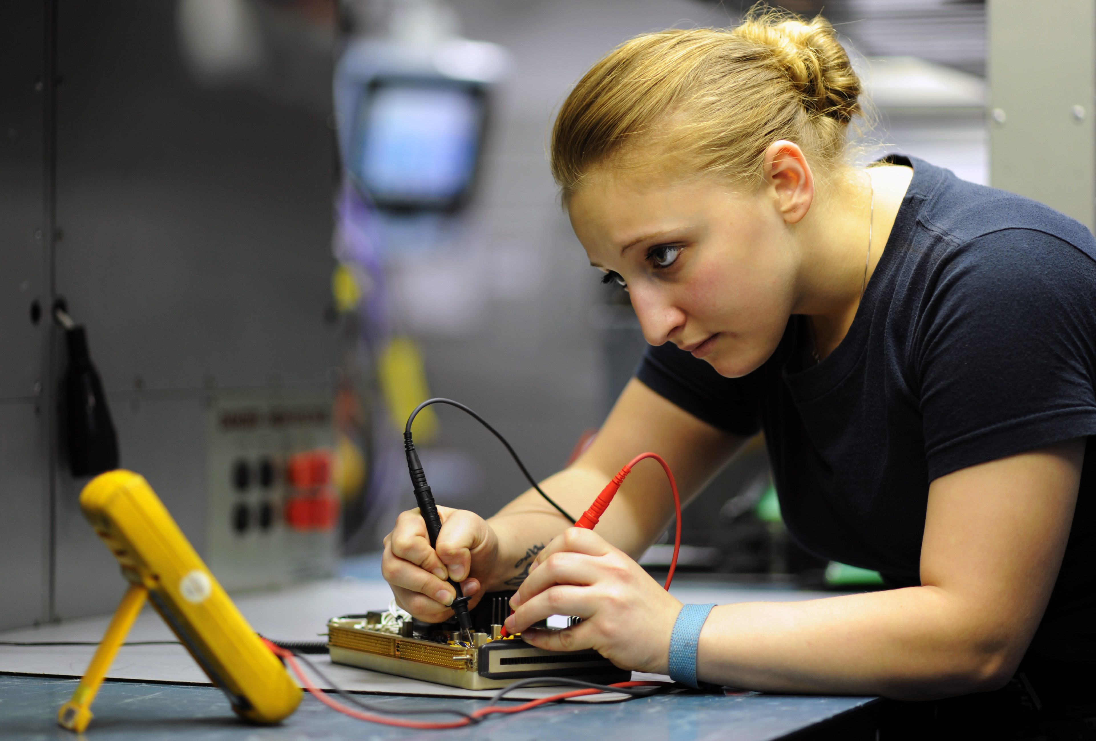 ARABIAN GULF (Oct. 21, 2011) Aviation Electronics Technician Airman Cristina N. Mace tests resistors on a circuit card aboard the aircraft carrier USS George H.W. Bush (CVN 77). George H. W. Bush is deployed to the U.S. 5th Fleet area of responsibility on its first operational deployment conducting maritime security operations and support missions as part of Operations Enduring Freedom and New Dawn. (U.S. Navy photo by Mass Communication Specialist Seaman Apprentice Brian Read Castillo/Released)